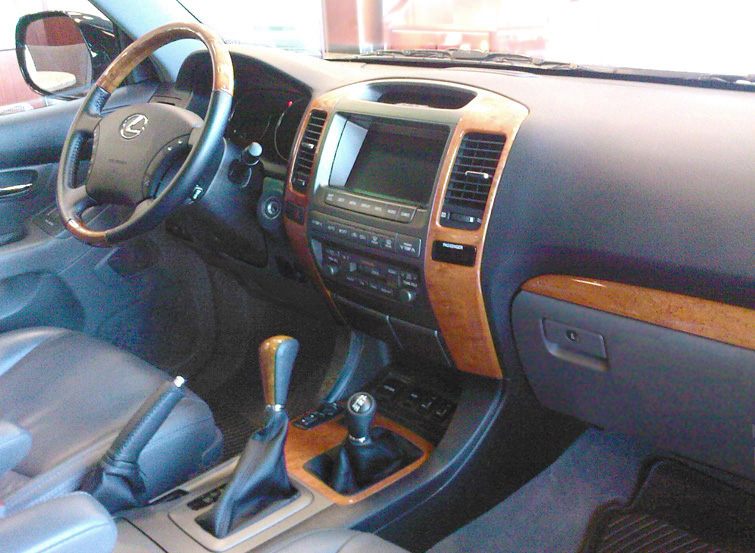 Lexus GX